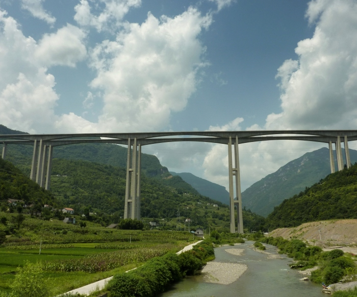 The Longtanhe Bridge in Hubei province, China